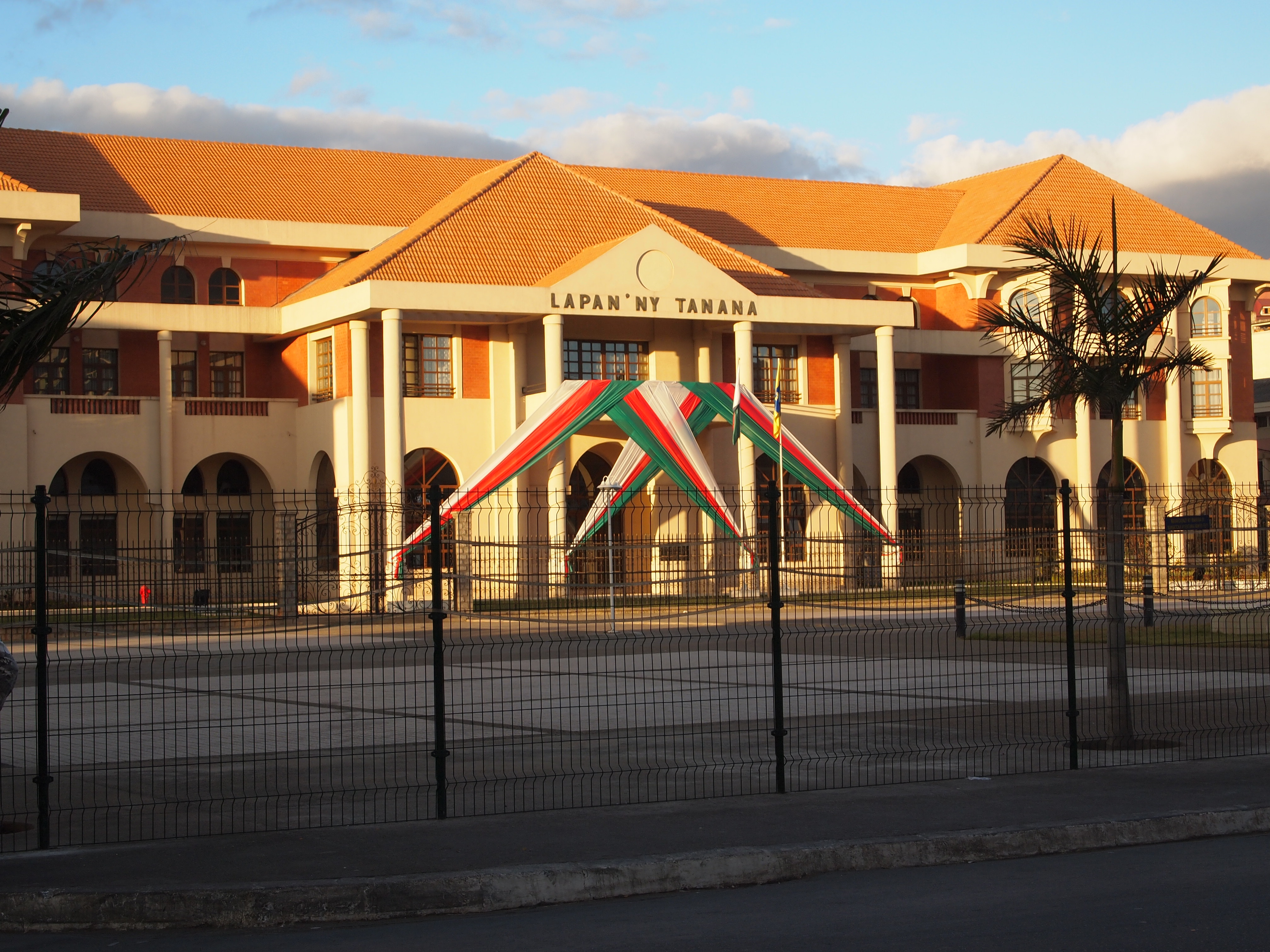 Hotel de Ville town hall of Antananarivo Madagascar